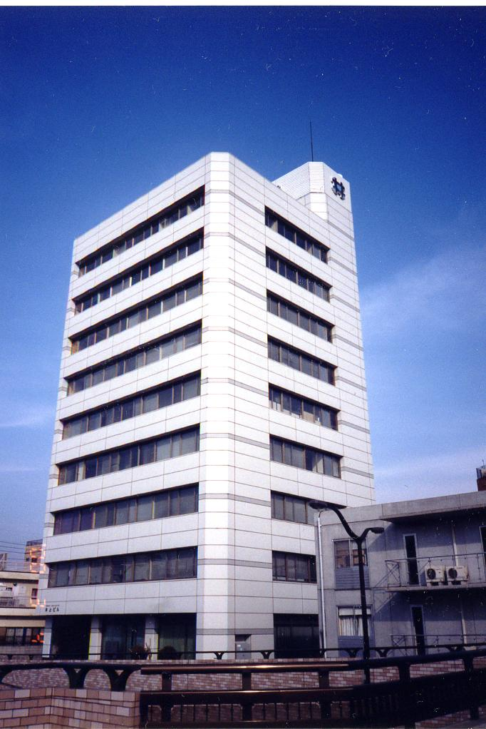 The headquarters of Inoue Kogyo Co., Ltd. (TYO 1858), a construction company which filed for bankruptcy on October 16, 2008.